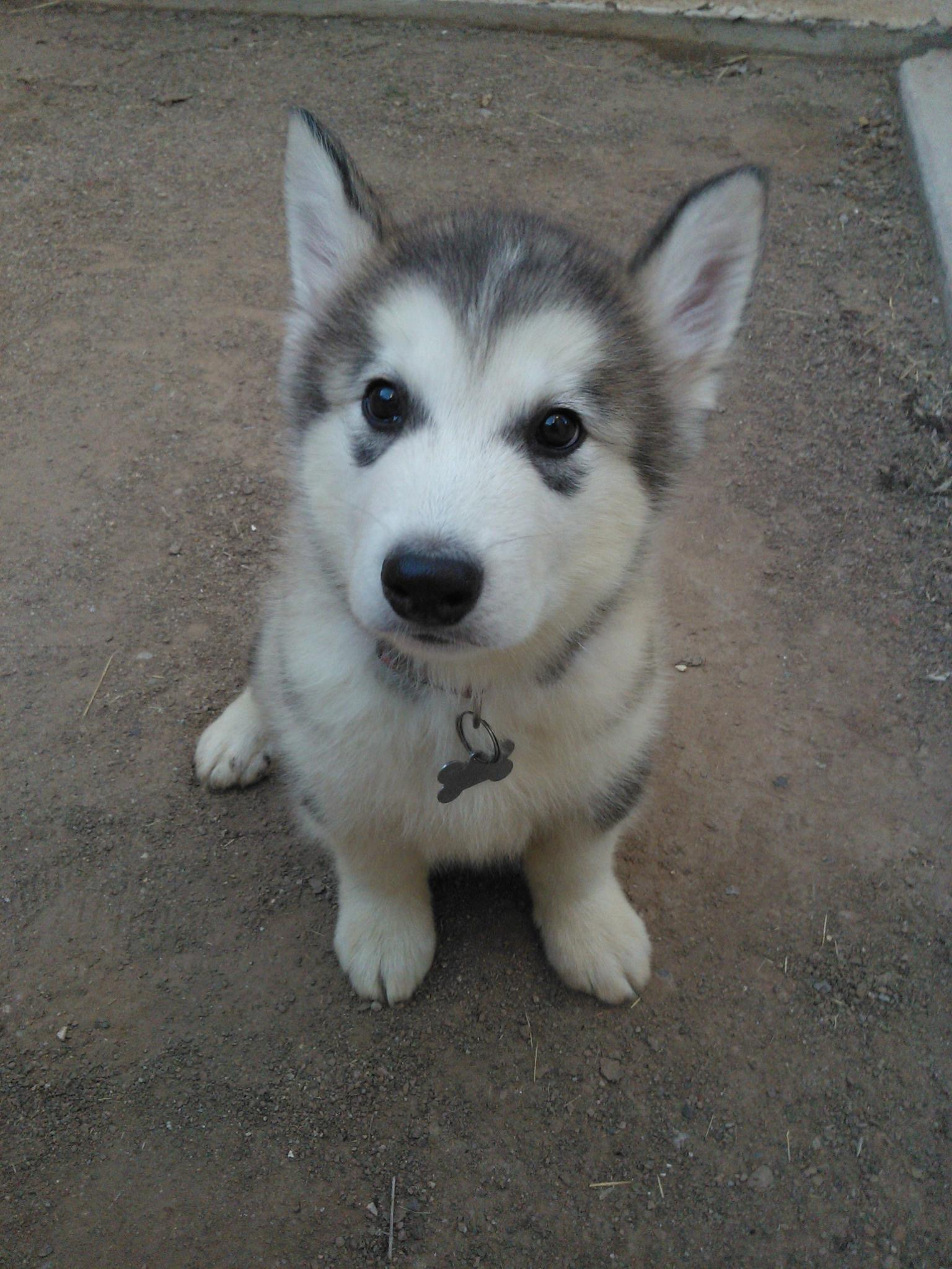 Two month old alaskan malamute